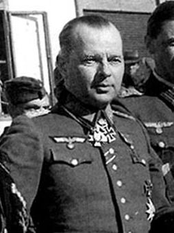 Cossack general Helmut v. Pannwitz